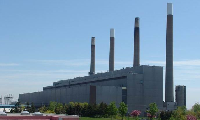 The Lakeview coal-fired power plant, in Mississauga, Ontario (Canada), shortly before its demolition, in 2006.